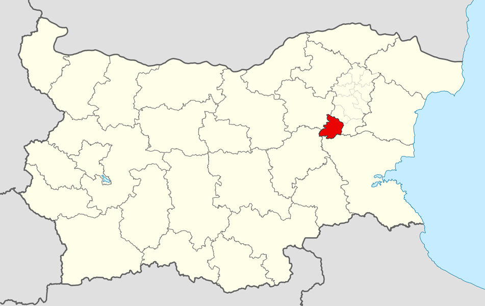 Location map of Varbitsa Municipality within Shumen Province, Bulgaria. Equirectangular projection, N/S stretching 130 %. Geographic limits of the map: N: 44.4° N S: 41.1° N W: 22.1° E E: 28.9° E